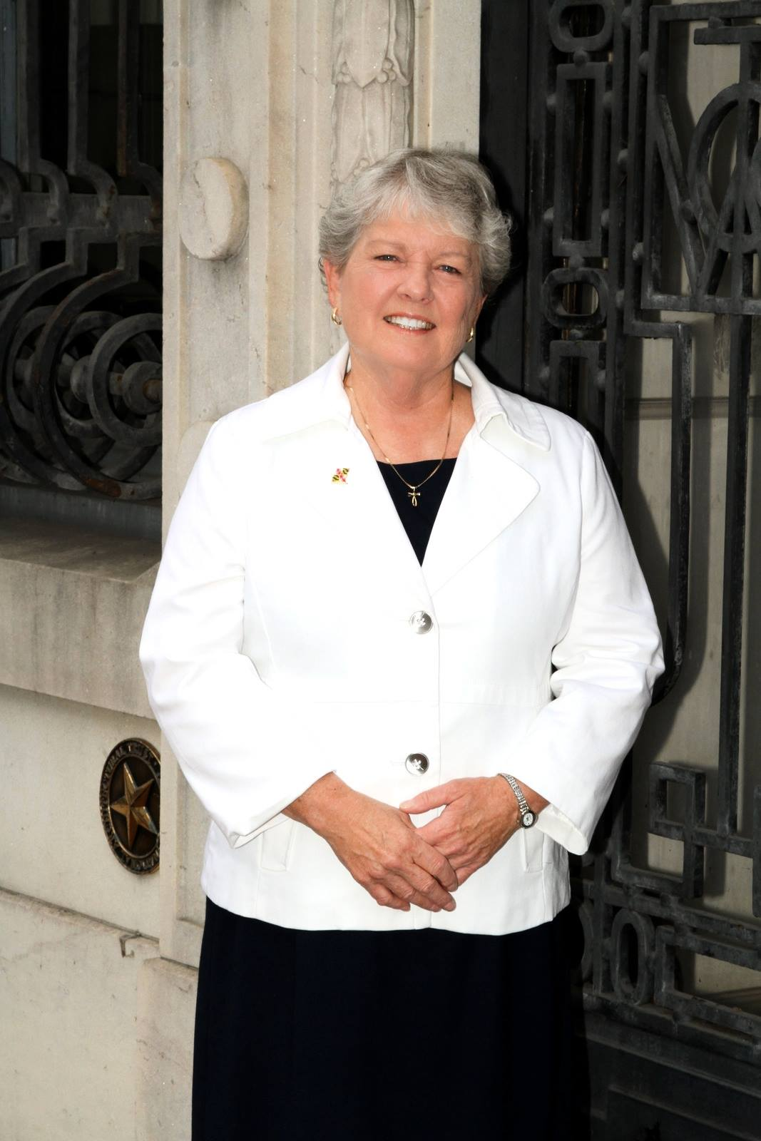 A portrait of Gail Bates